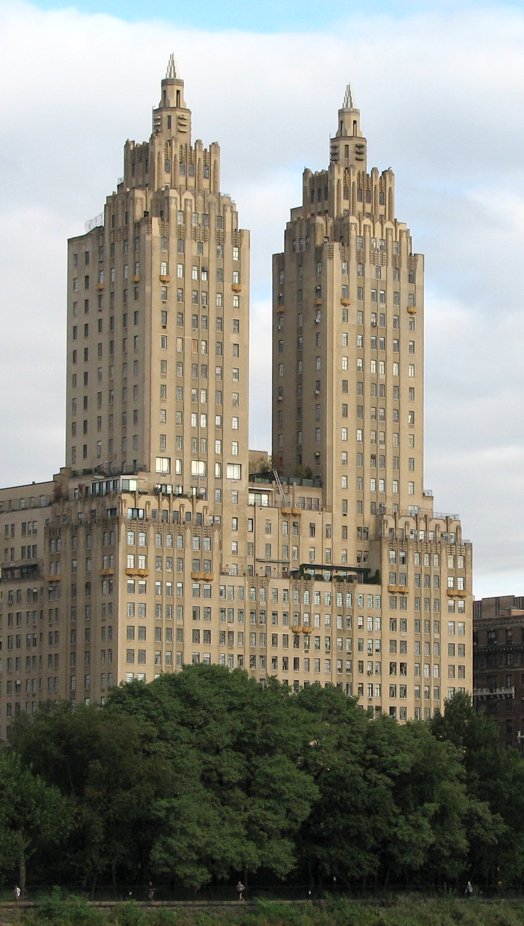 The Eldorado apartment is New York City. Photographed from the Central Park.